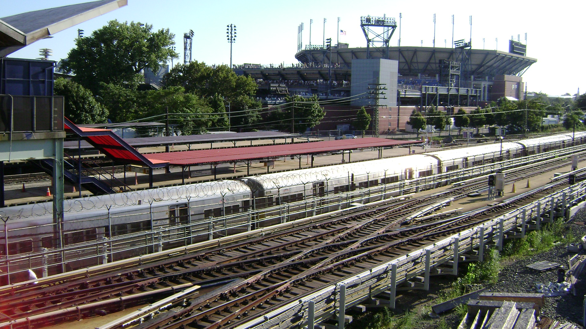 The Shea Stadium Long Island Rail Road station.